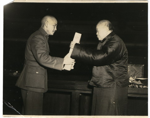 Woo Tsin-hang, the chairman of National Assembly deliver the Constitution of ROC to Chiang Kai-shek, the chairman of ROC government